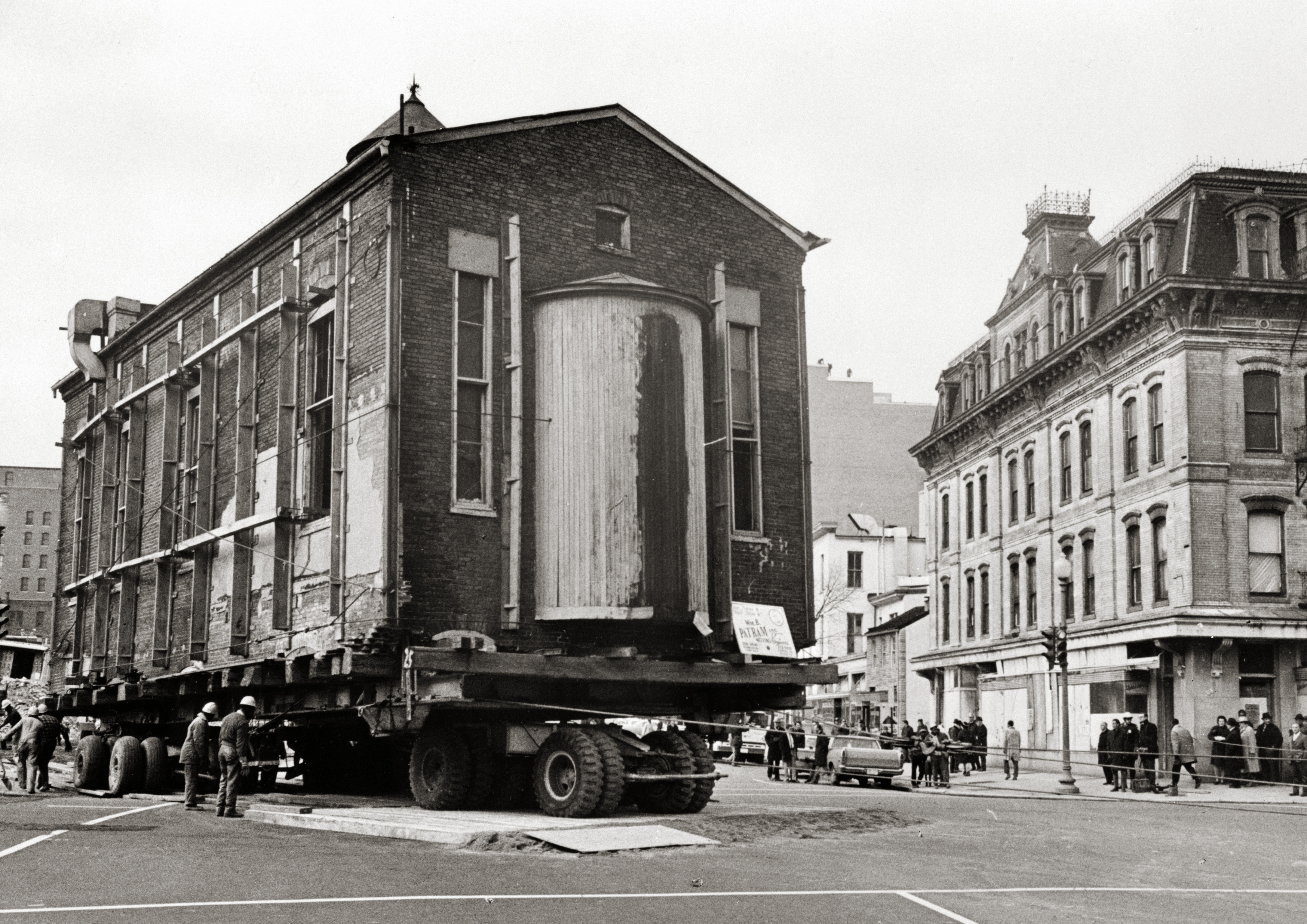 The original Adas Israel Synagogue in Washington, D.C. being relocated to avoid its demolition. It had been located at 6th & G Streets, NW since 1876, but was moved to 3rd & G Streets, NW in December 1968. The building is now known as the Lillian & Albert Small Jewish Museum (owned by the Jewish Historical Society of Greater Washington) and is listed on the National Register of Historic Places.